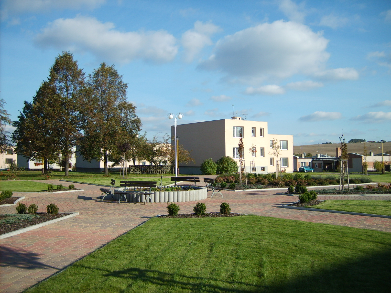 Prefab housing units in Dolní Kralovice, Czech rep.